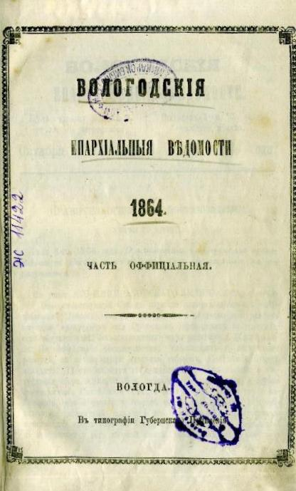 Cover page of the 1st issue of Vologodsky Eparchialny Vedomosti journal (1864)